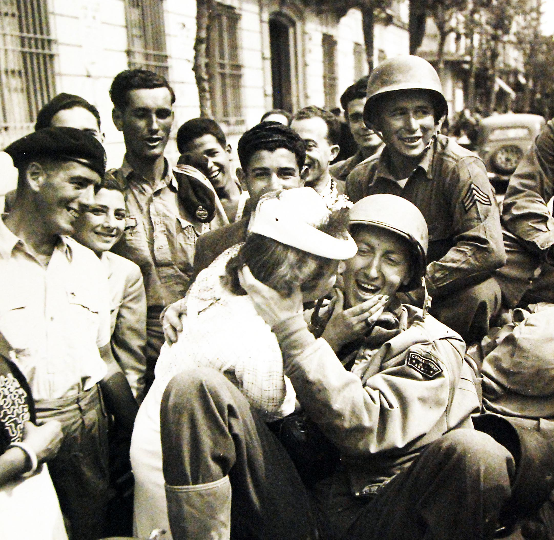 Lot-11576-3: North African Campaign, Battle of Tunisia, November 1942 to May 1943. American war correspondent Ralph G. Martin kissed by a young woman at Porto Farina. It is now known as Ghar al Milh. Photographed by Nick Perrino. Office of War Information Photograph. Courtesy of the Library of Congress. (2016/06/10).